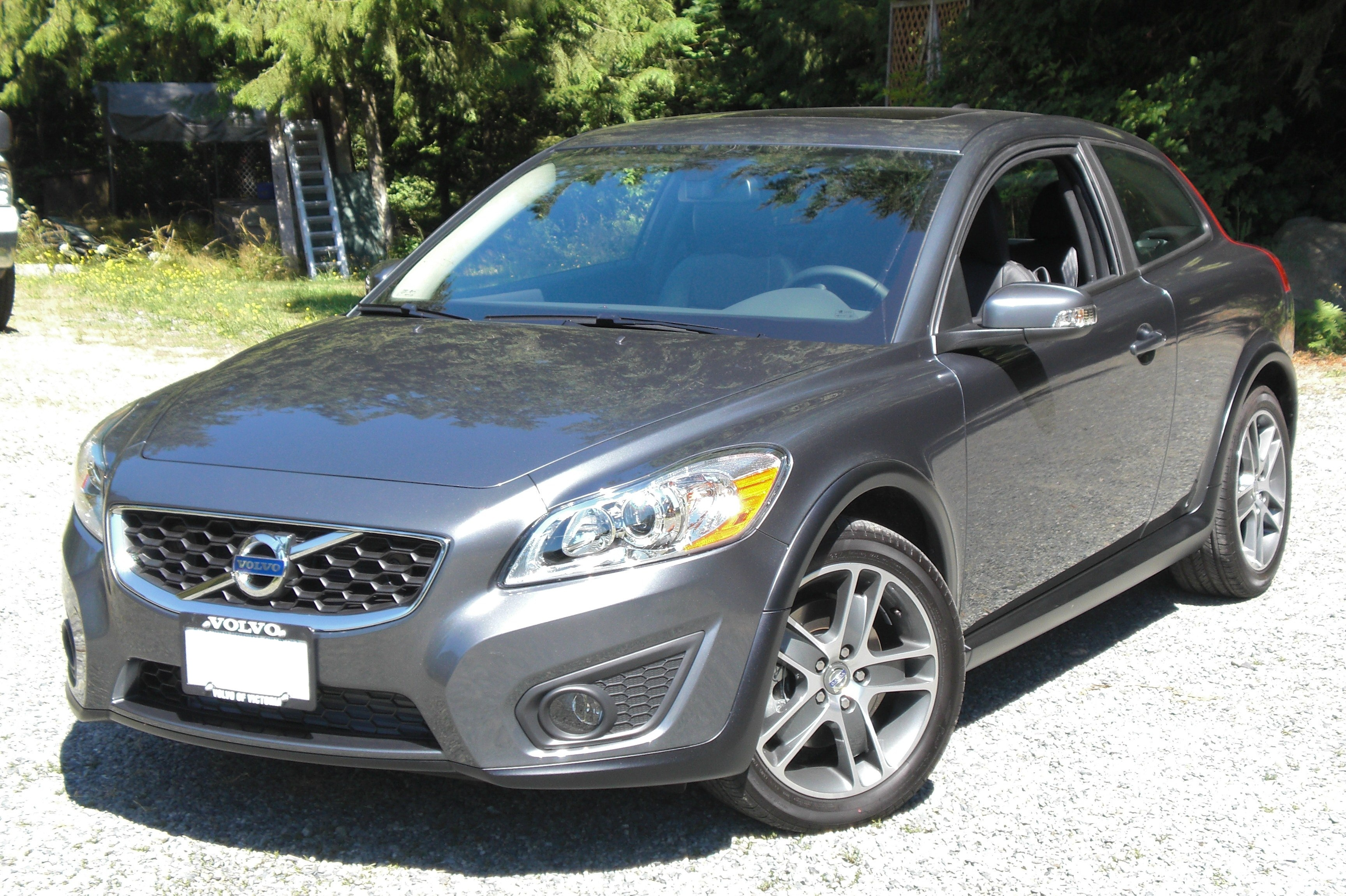 The new ride - a titanium gray 2011 Volvo C30